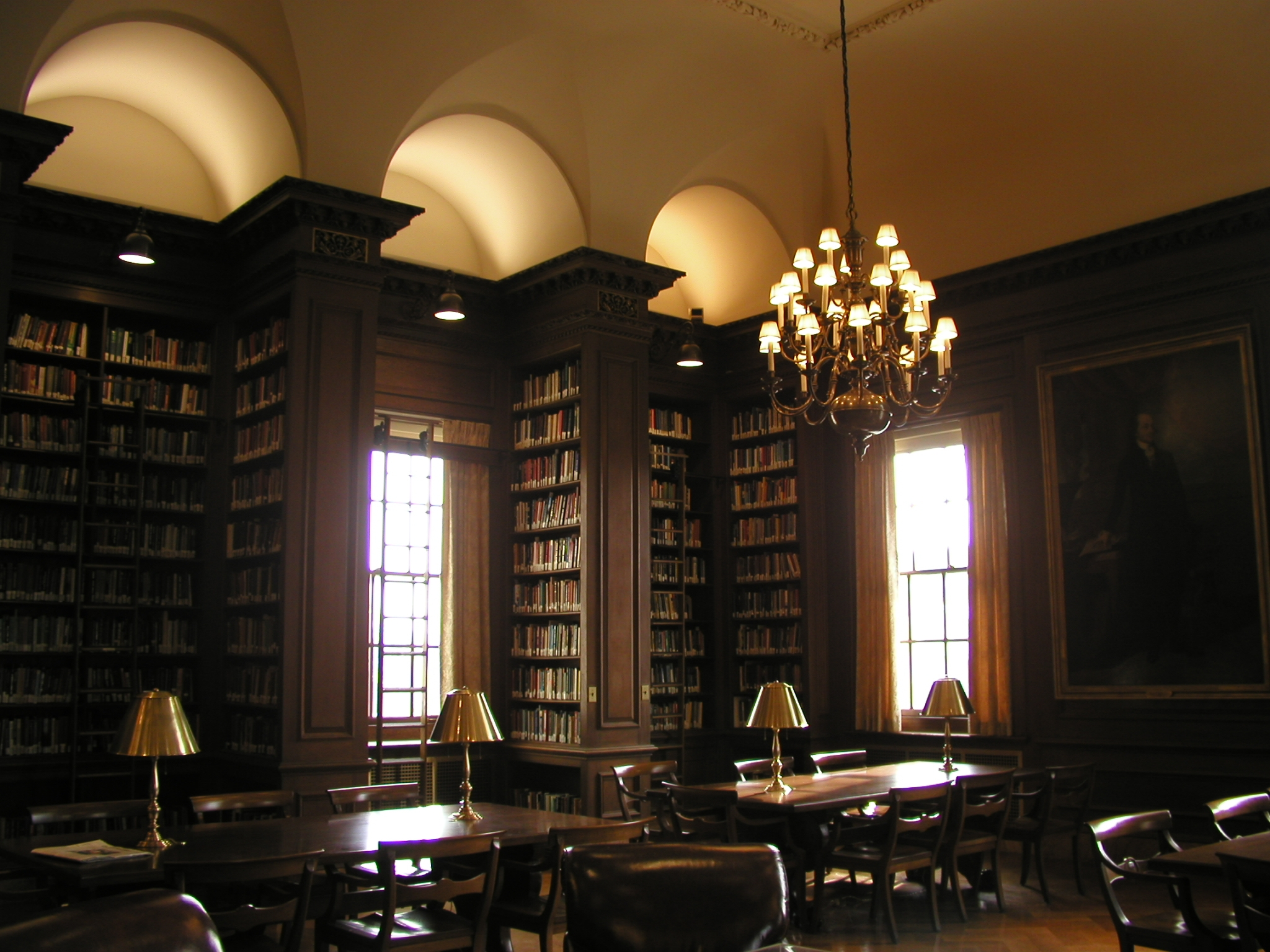 The library in the Kirby Hall of Civil Rights building at Lafayette College in Easton, Pennsylvania, United States.